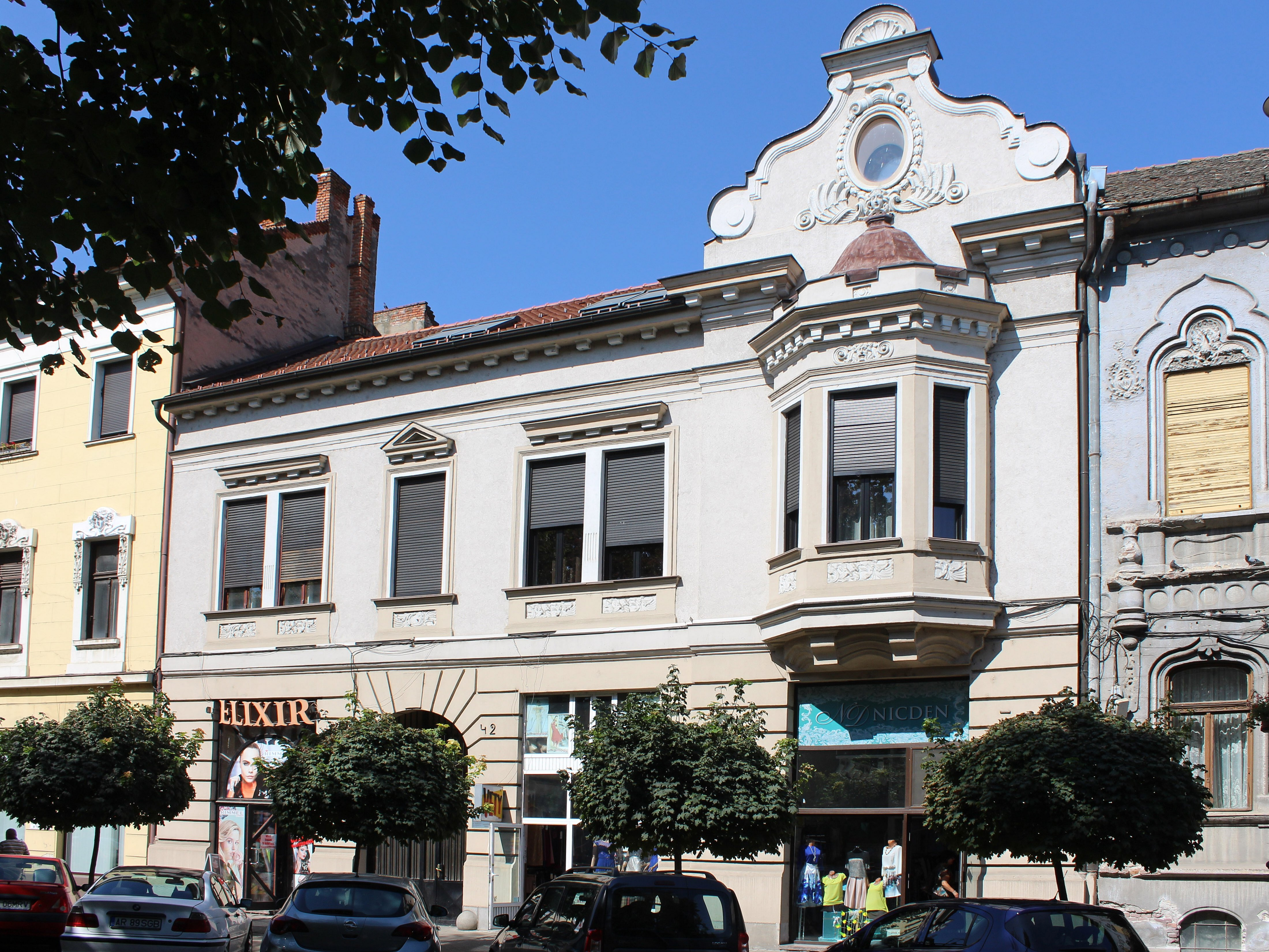 House in Arad, Romania, Revoluției av., no 42, built about 1912